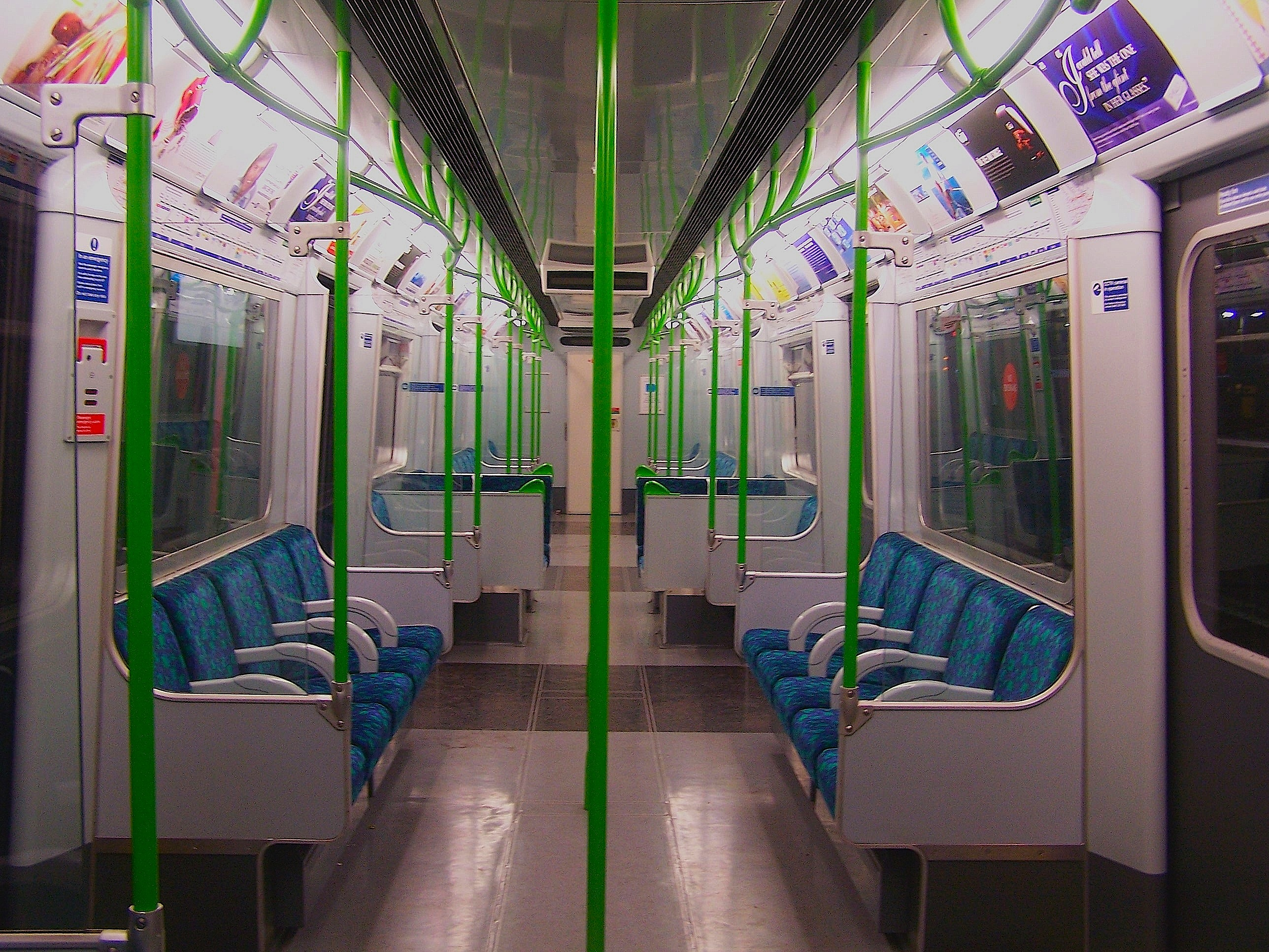 The refurbished interior of a D78 Surface Stock Driving Motor vehicle